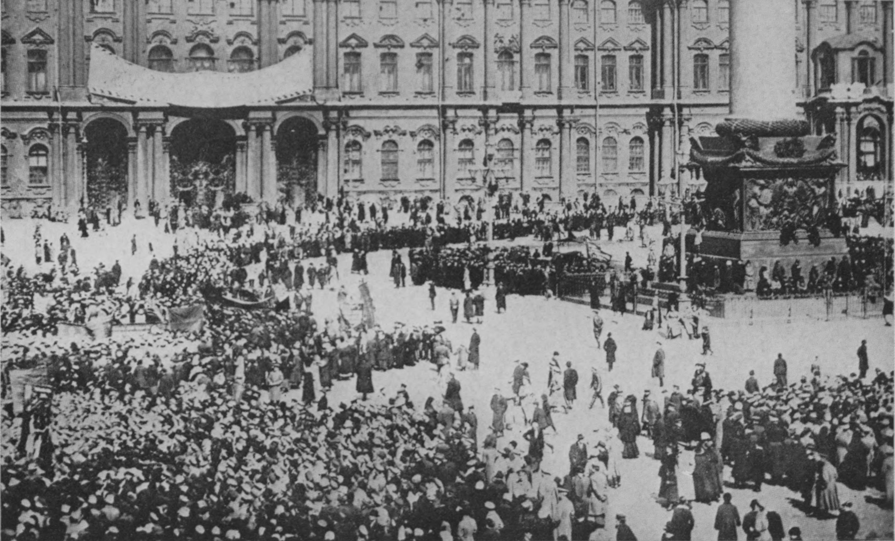 "May Day demonstration in front of the Winter Palace." 1918.